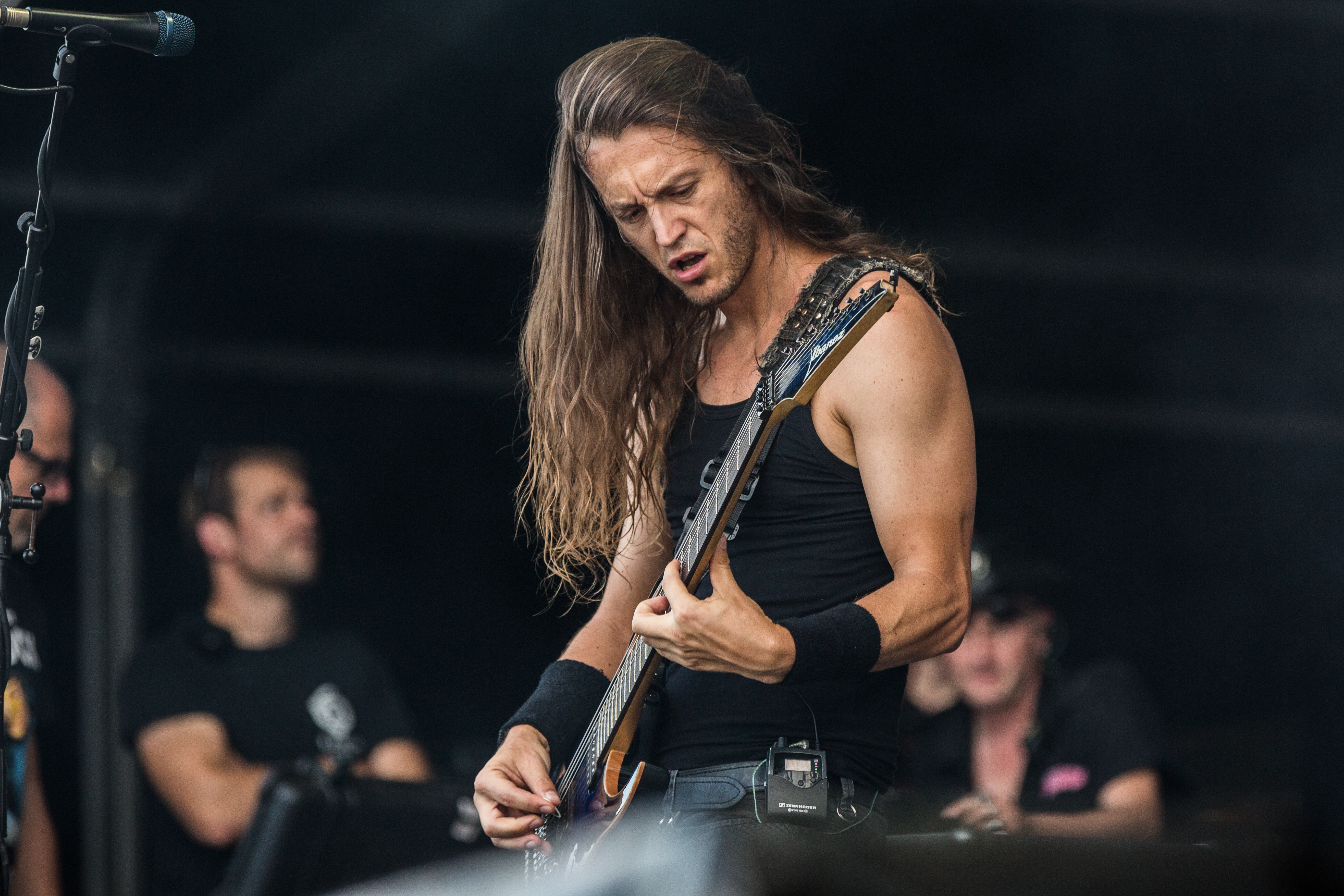 The Dutch symphonic metal band Epica at the Summer Breeze Open Air 2017 in Dinkelsbühl/Germany.